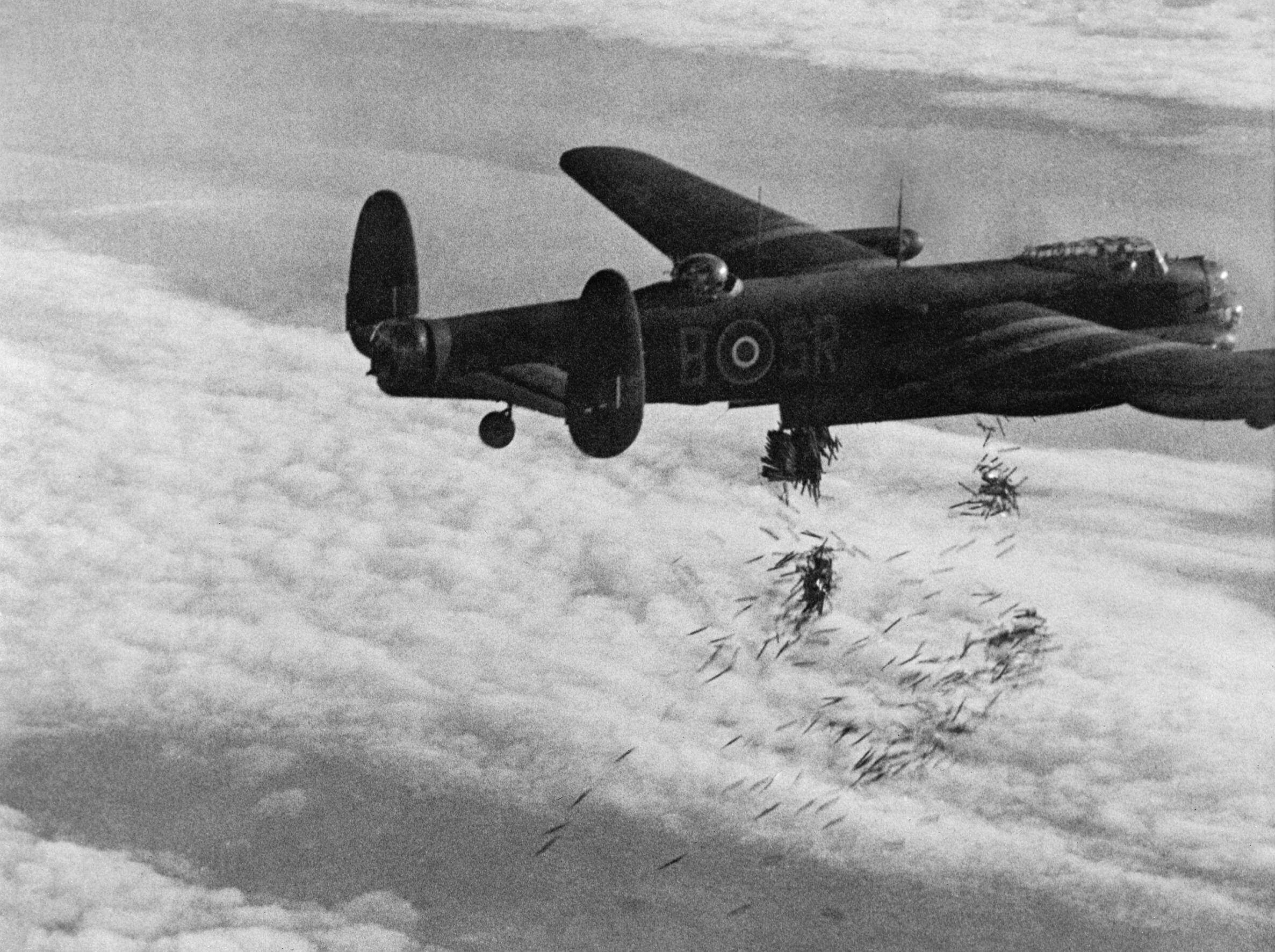 Avro Lancaster SR-B drops bundles of "window" during a raid on Duisburg on 15 October 1944. Still from film shot by the RAF Film Production Unit during Operation HURRICANE. Avro Lancaster B Mark I, NG128 'SR-B', of No. 101 Squadron RAF, piloted by Warrant Officer R B Tibbs, releases bundles of 'Window' over the target during a special daylight raid on Duisburg. Over 2,000 sorties were dispatched to the city during 14-15 October 1944, in order to to demonstrate Bomber Command's overwhelming superiority in German skies. Note the large aerials on top of the Lancaster's fuselage, indicating that the aircraft is carrying 'Airborne Cigar' (ABC), a jamming device which disrupted enemy radio telephone channels